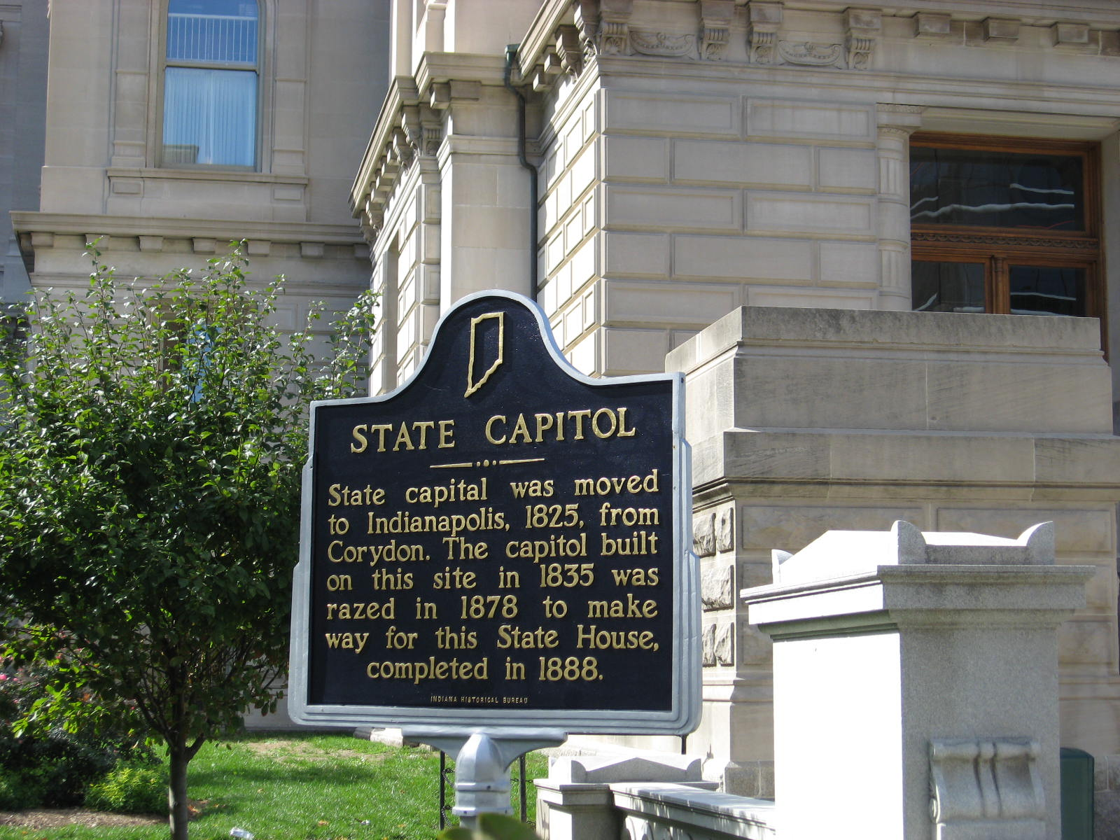 Indiana Statehouse, Indianapolis